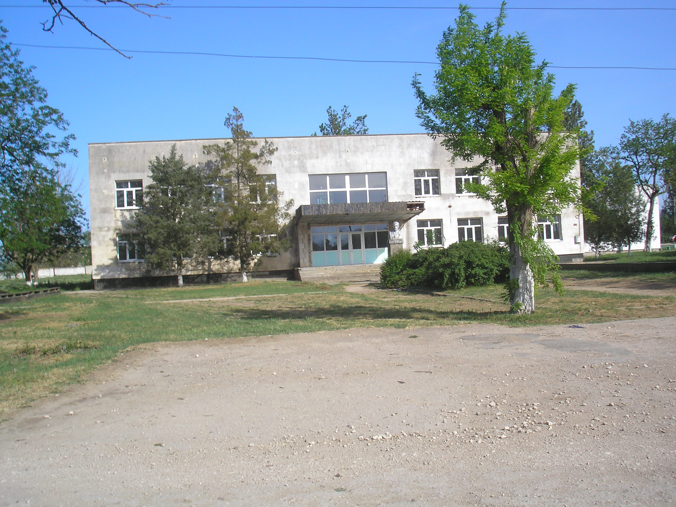 Village Mirnovka, Dzhankoysky district, Crimea